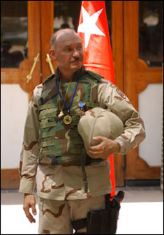 U.S. Army Col. James H. Coffman Jr. glances over at a formation of Iraqi Special Police Commandos after being awarded the Distinguished Service Cross during an Aug. 24 ceremony in Baghdad. OCPA-2005-08-24-174144 1